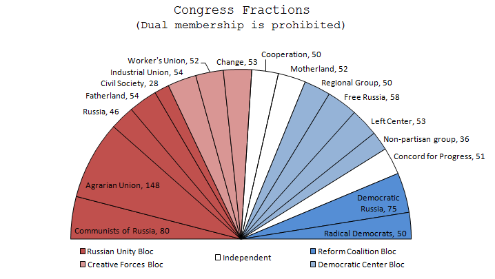 Russian Congressional Fractions 1992, fraction/bloc colors are arbitrary, fraction/bloc locations are arbitrary